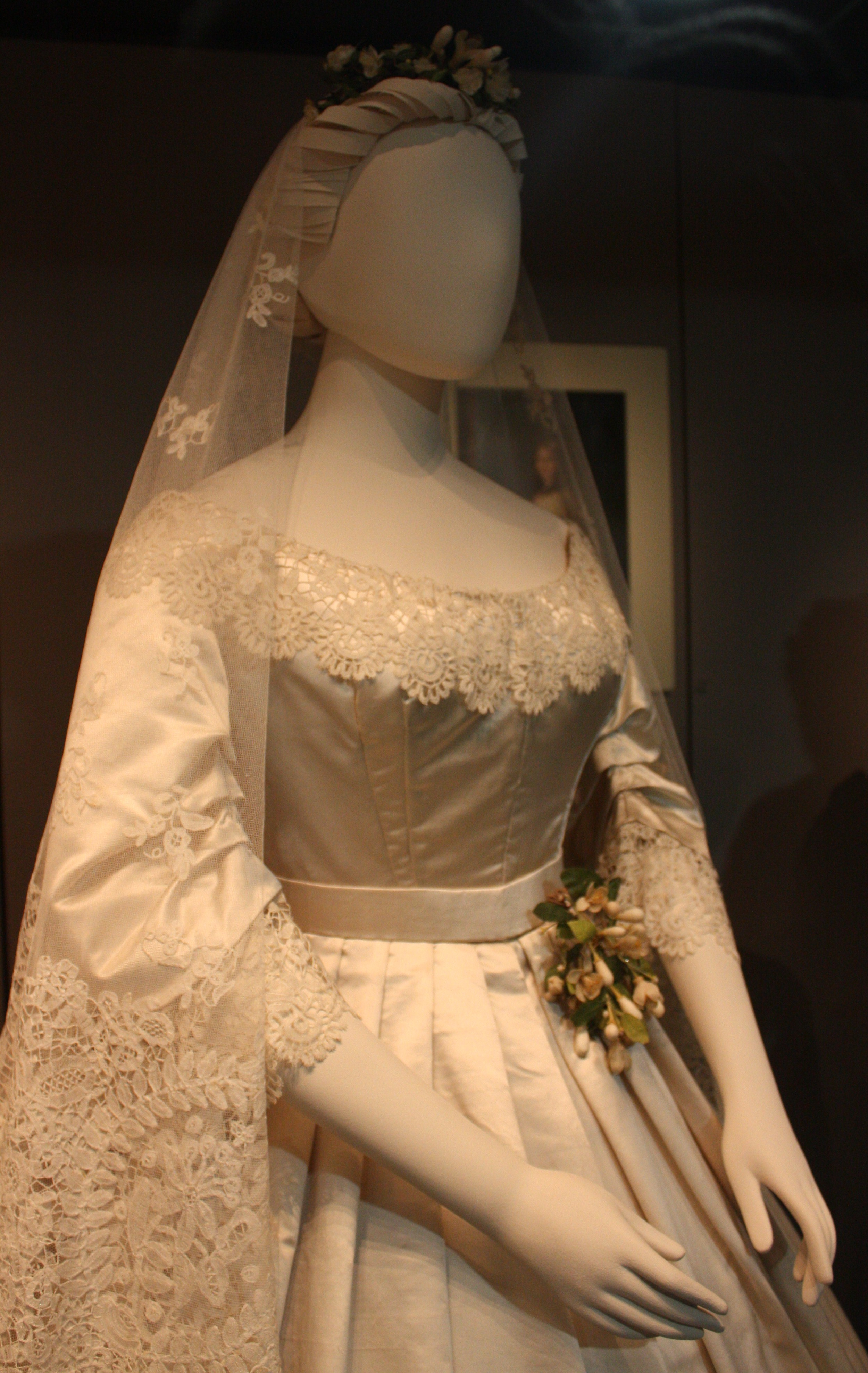 Wedding Dress Worn at the marriage of Eliza Penelope Clay & Joseph Bright, at St James's Church, Piccadilly, 16th Feb. 1865 British 1865 Museum no. T.43-1947 Silk-satin dress, trimmed with Honiton appliqué lace, machine net & bobbin lace; hand-sewn. The dress is high Victorian in design - a simple darted bodice with scoop neck trimmed with Honiton lace, 3/4 length flaring sleeves, pleated at elbows & also trimmed with lace and a wider pleated hoop skirt trimmed from halfway with an expanse of Honiton lace. With veil. Wikipedia Loves Art at the Victoria and Albert Museum This photo of item # [1] at the Victoria and Albert Museum was contributed under the team name "va_va_val" as part of the Wikipedia Loves Art project in February 2009. Victoria and Albert Museum The original photograph on Flickr was taken by Val_McG—please add a comment to the original Flickr page whenever a use has been made on Wikipedia or another project. Project galleries on Flickr: this institution, this team